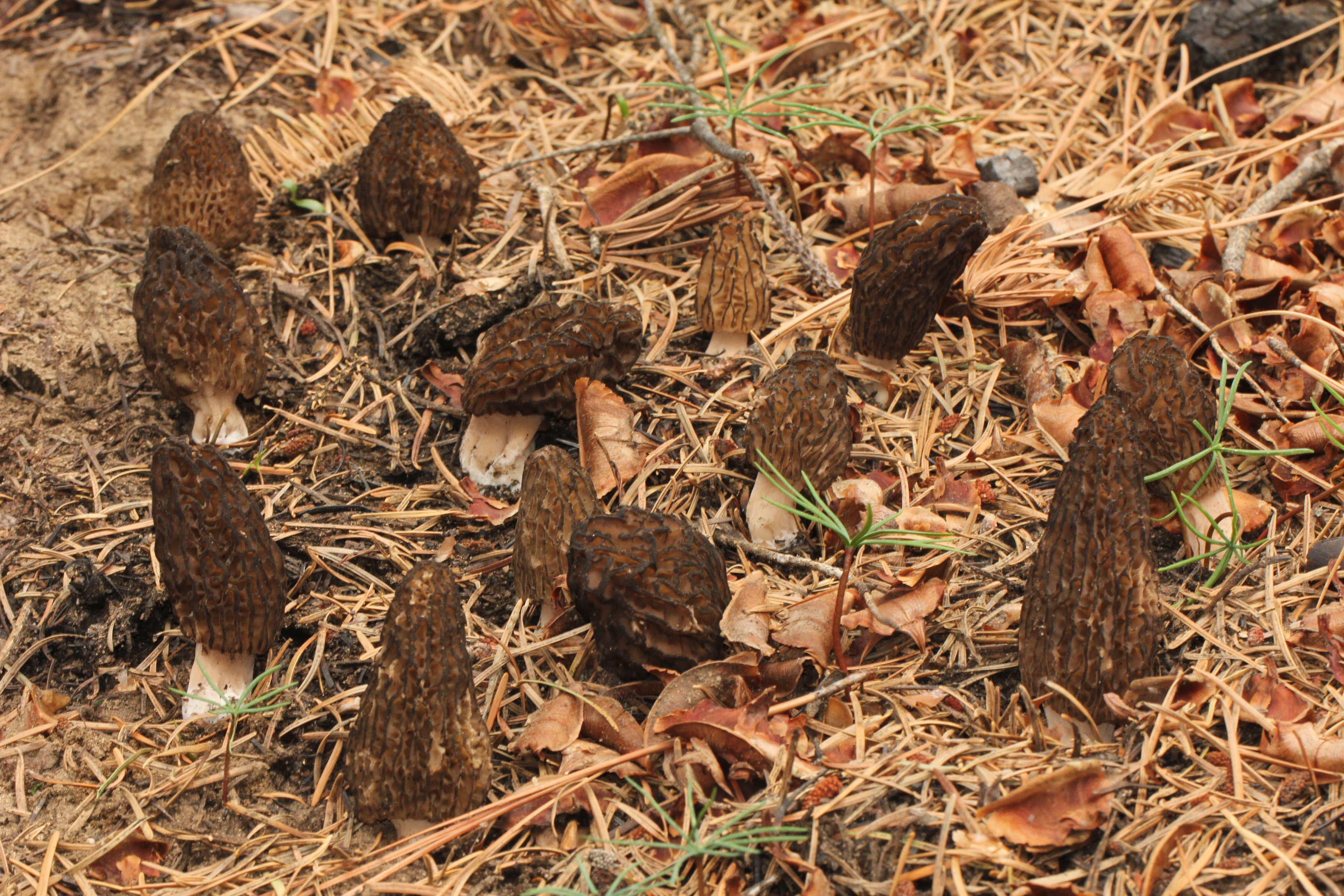 A cluster of ascocarps of Morchella sextelata M.Kuo. Photographed in Yosemite National Park, California, USA. "Notes: Growing in an area burned by the rim fire. Thousands of fruit bodies seen, all were near Abies concolor." Identity of species confirmed with DNA sequence comparison.